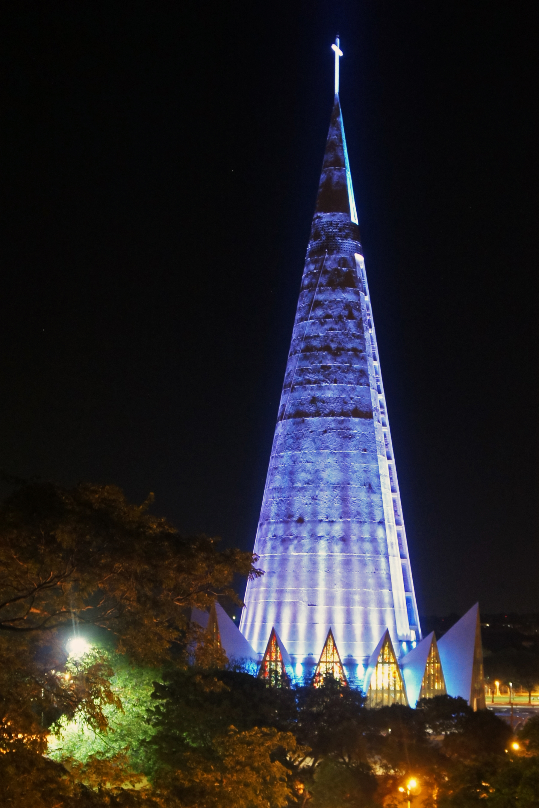 Cathedral of Maringá at night, Paraná, Brazil